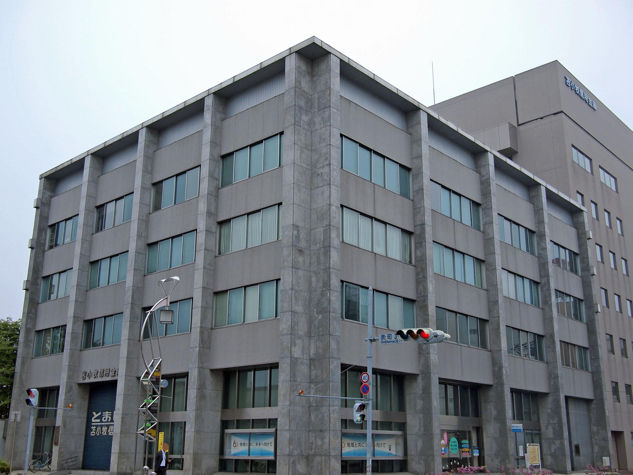 Tomakomai Shinkin Bank, Tomakomai, Hokkado, Japan